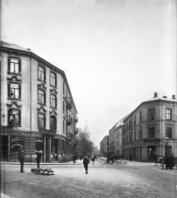 Parkveien 12 (right) houses the restaurant Lorry